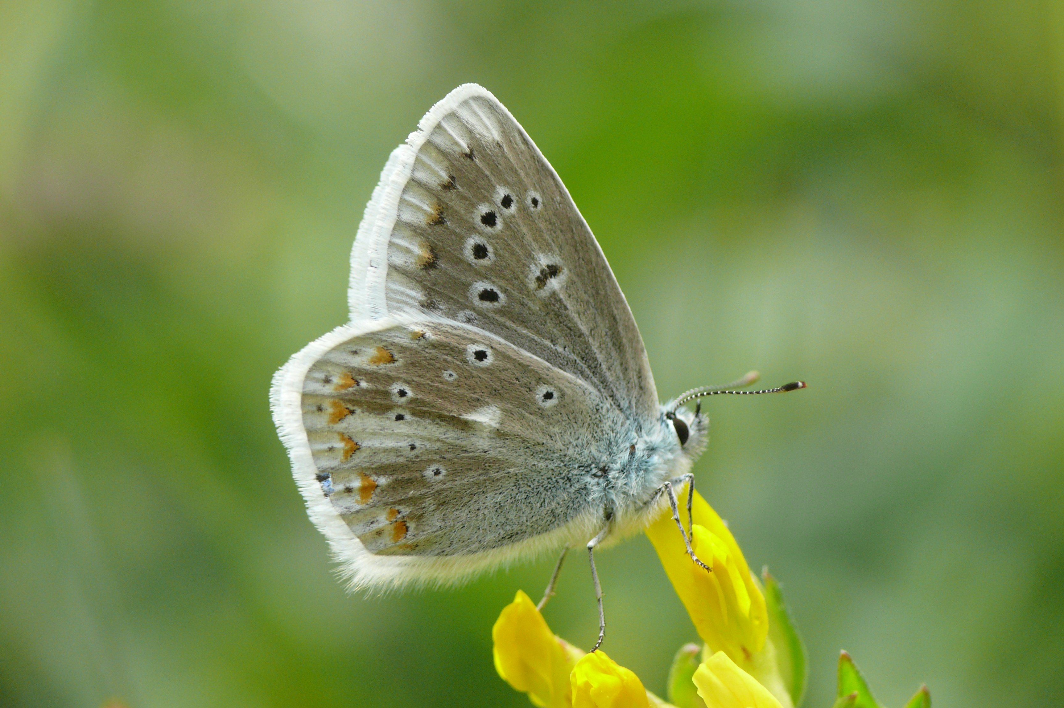 Male of Turquoise Blue (Polyommatus dorylas), Locality: Peterbaueralm, Bayerisch Zell, Bavaria, Germany